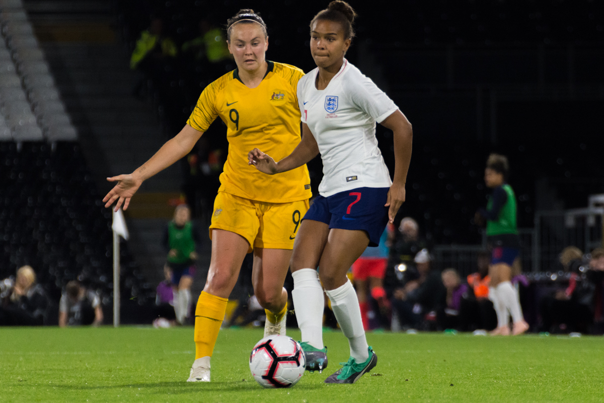 Nikita Parris vs Australia on 9 October 2018